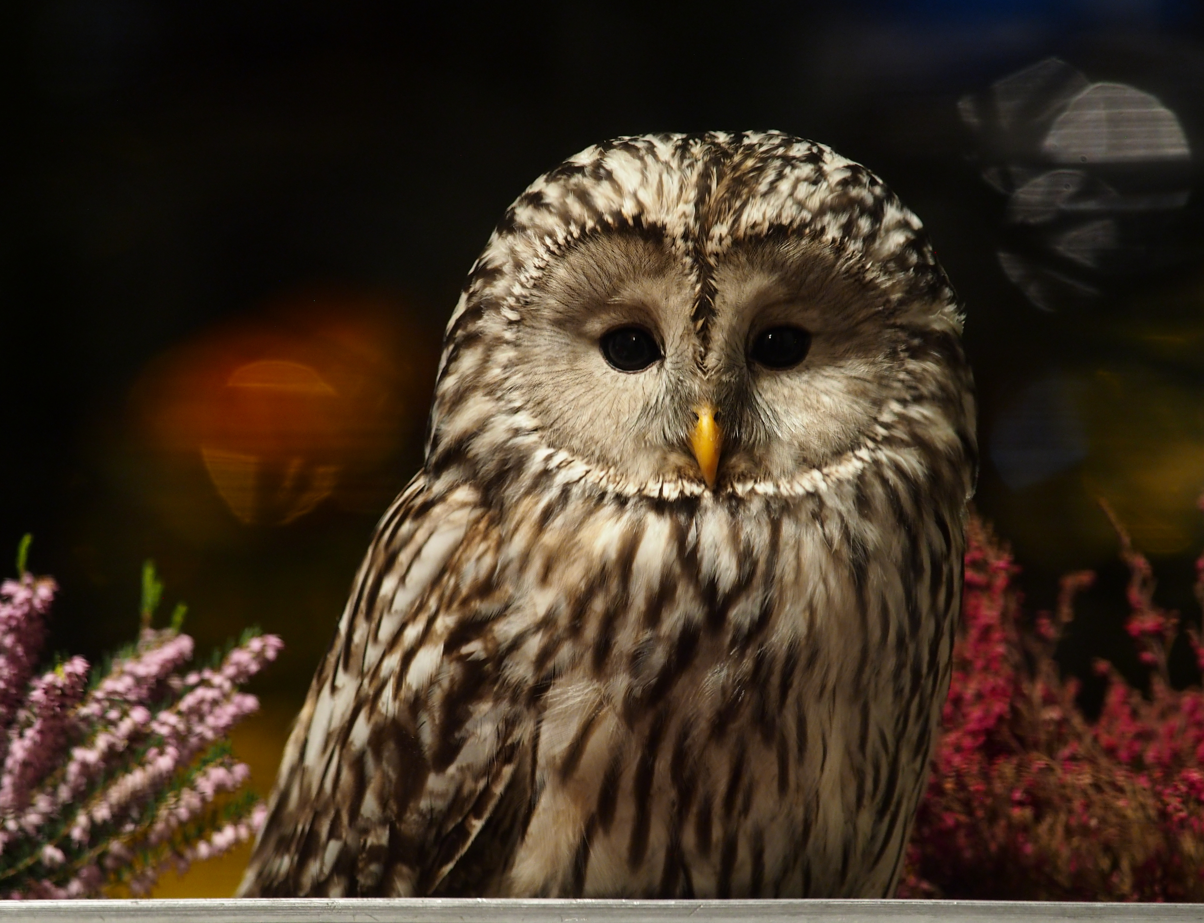 Ural Owl Strix uralensis in Ljubljana, Slovenia.